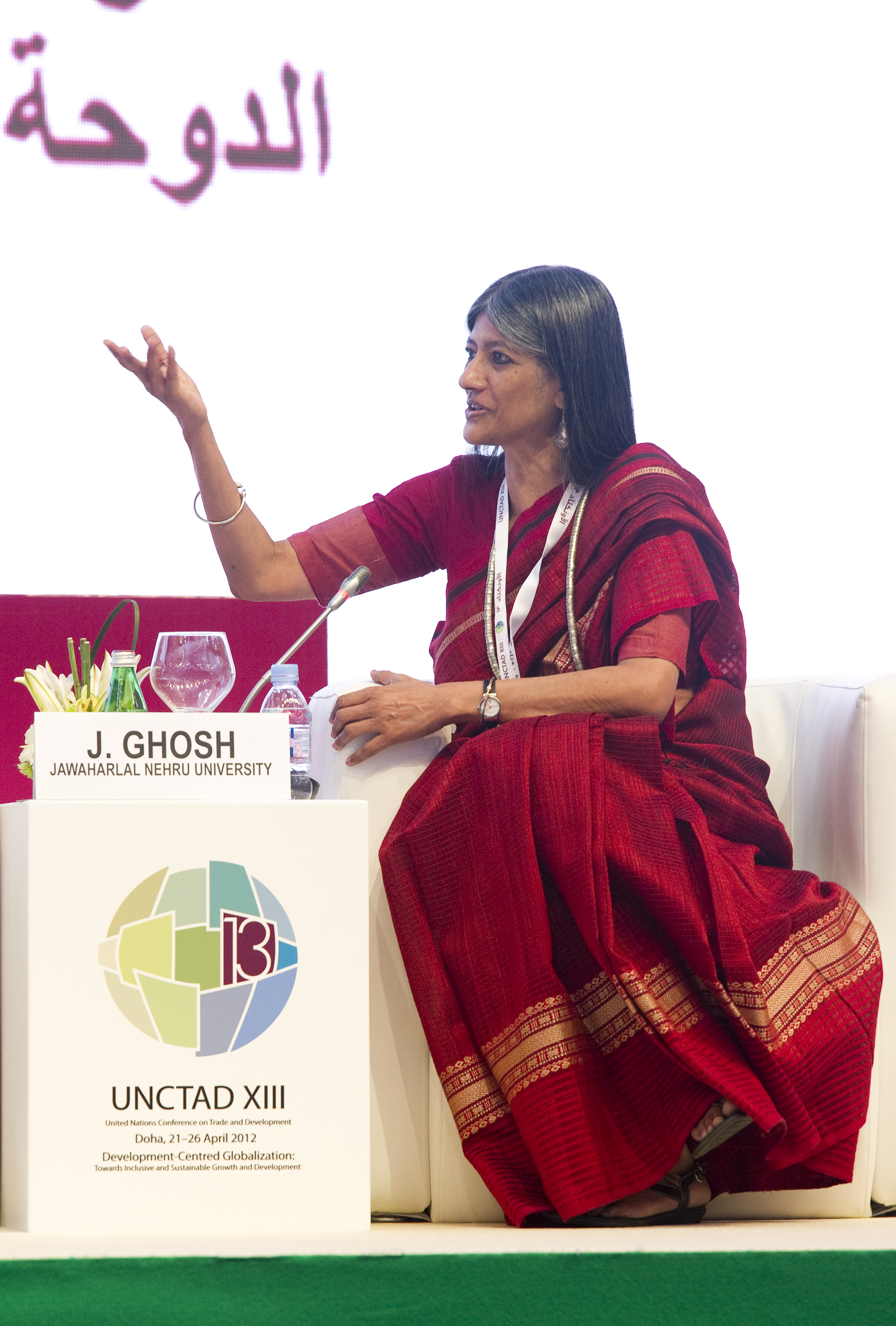 Professor Jayati Ghosh, Centre for Economic Studies and Planning, School of Social Sciences, Jawaharlal Nehru University, New Delhi, India